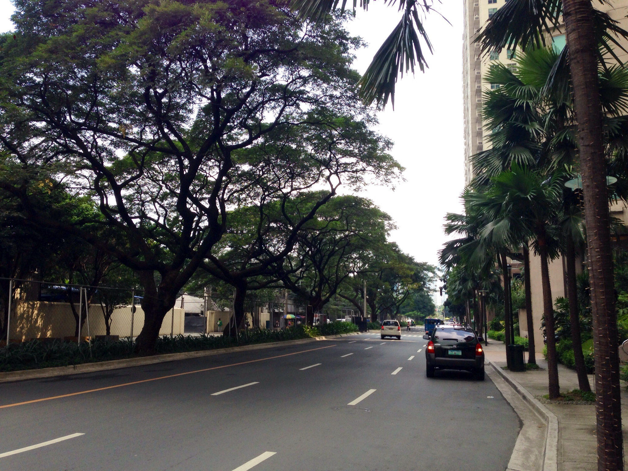 Estrella Street, Rockwell Center, Makati, Metro Manila, looking south towards Joya Drive Tagalog: Kalye Estrella, Lundayang Rockwell, Lungsod ng Makati, patungong Joya Drive sa timog